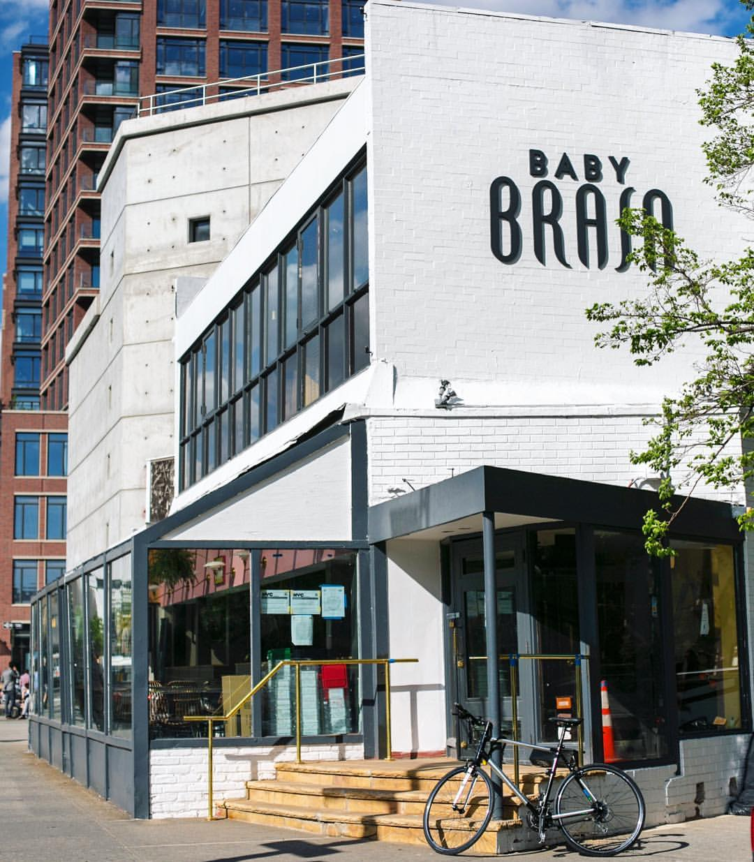 BABY BRASA West Village